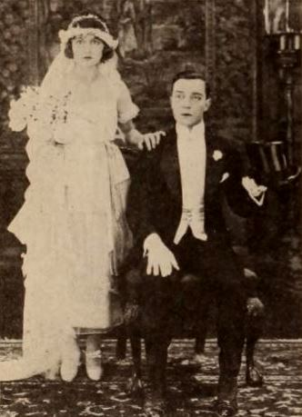 Still from the American comedy film The Saphead (1920) with Buster Keaton and Beulah Booker, on page 46 of the December 18, 1920 Exhibitors Herald.